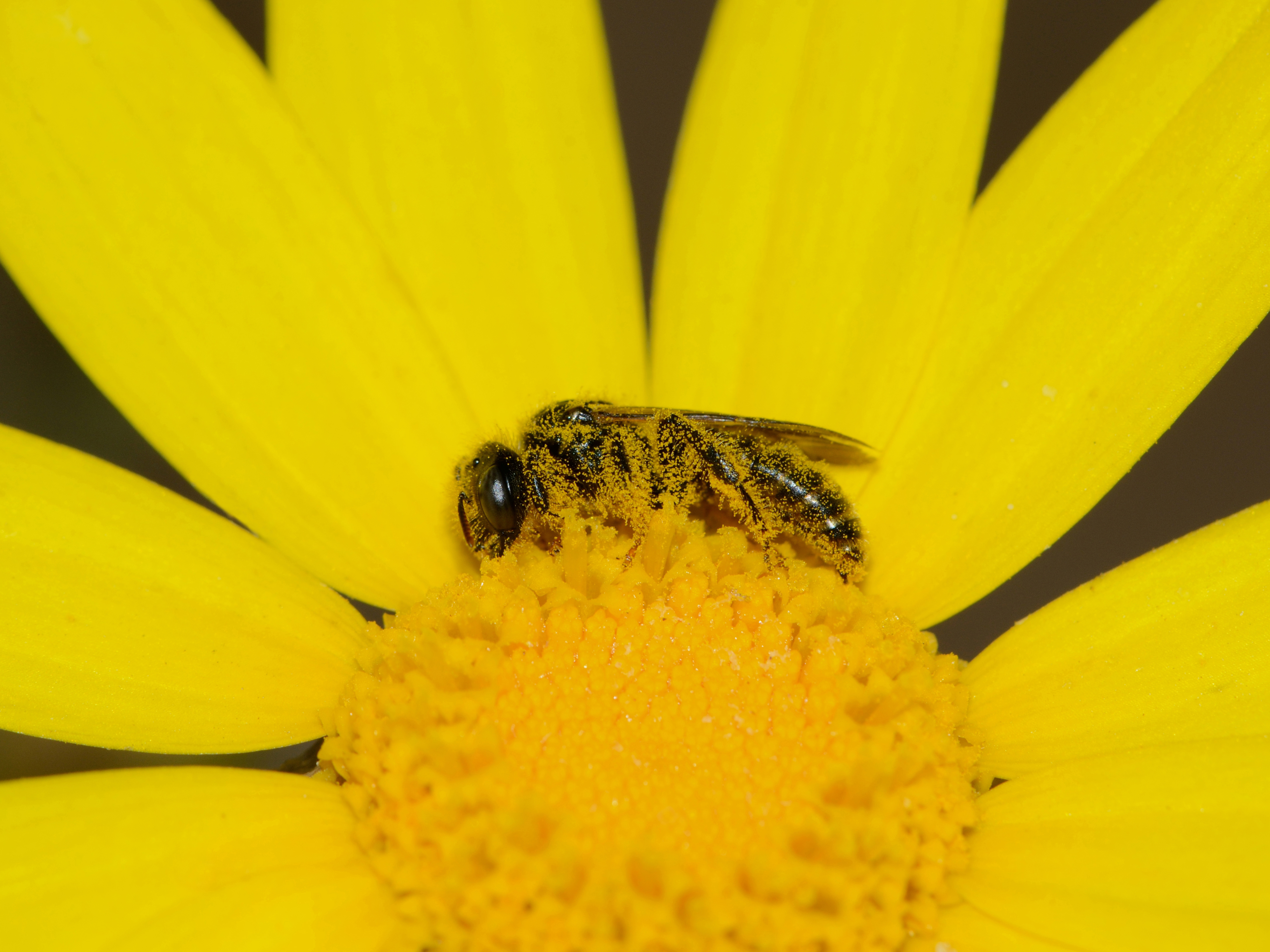 Panurgus pyropygus Friese, 1901, male foraging on Glebionis coronaria, Netanya, Israel, April 7, 2012. Det. Sébastien Patiny 2013.